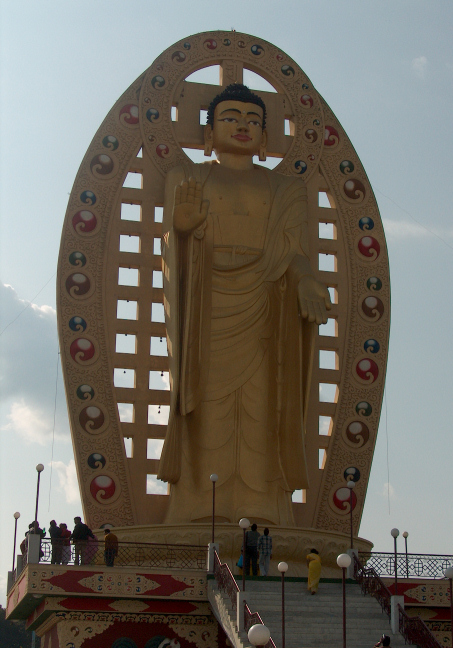 Statue of Buddha in Dehra Dun, India.